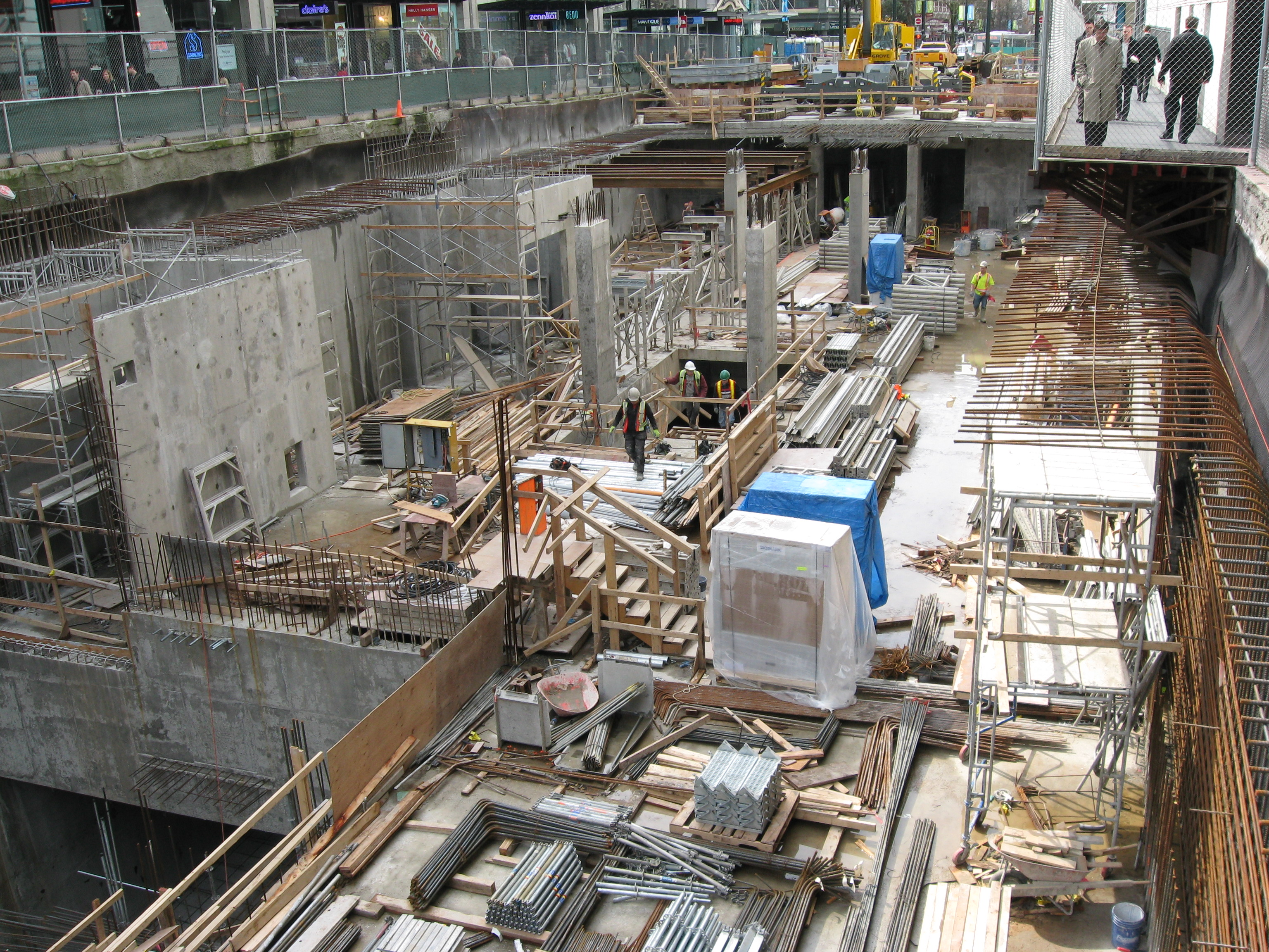 Construction progresses on the Canada Line at Granville and Georgia Streets outside Sears. Vancouver, Canada